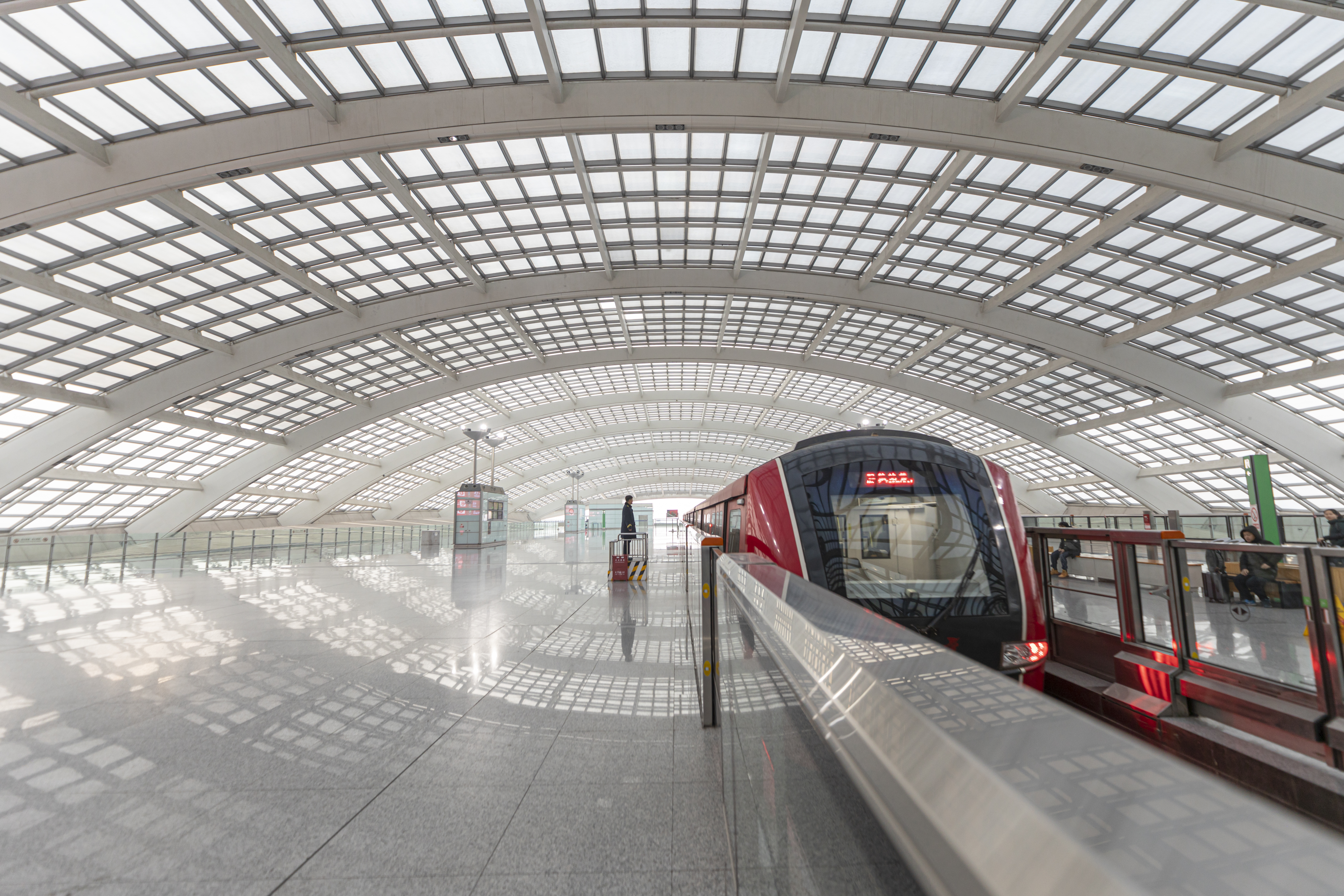 Terminal 3 Station - Beijing Capital Airport